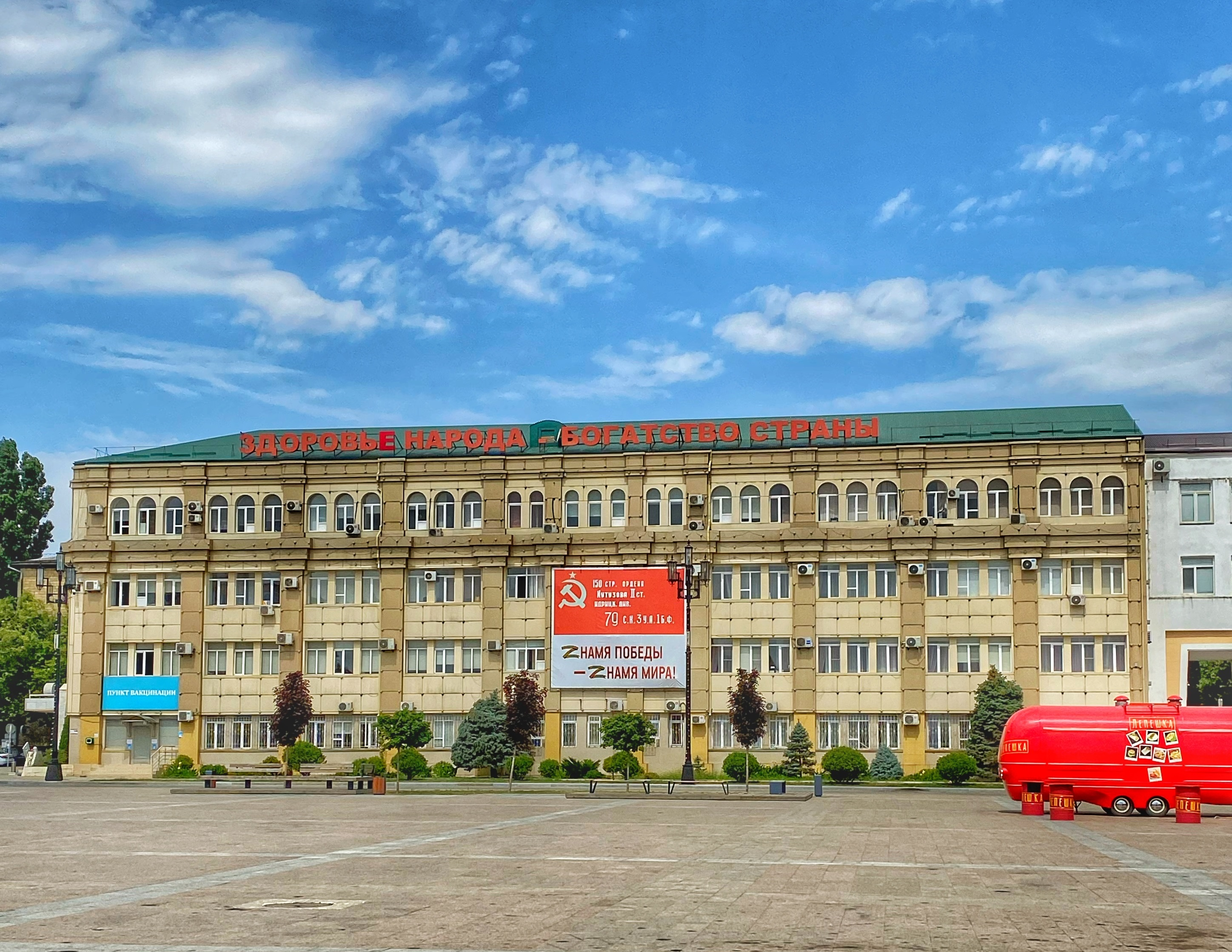 Dagestan State Medical Academy